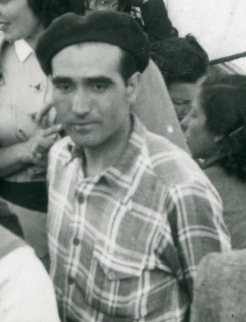 Portuguese writer and activist Alves Redol (1911-1969)